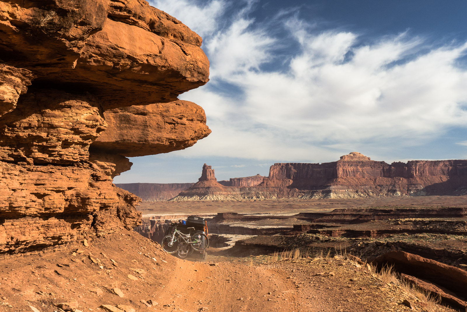 White Rim Road - Day 3, Moab, Utah